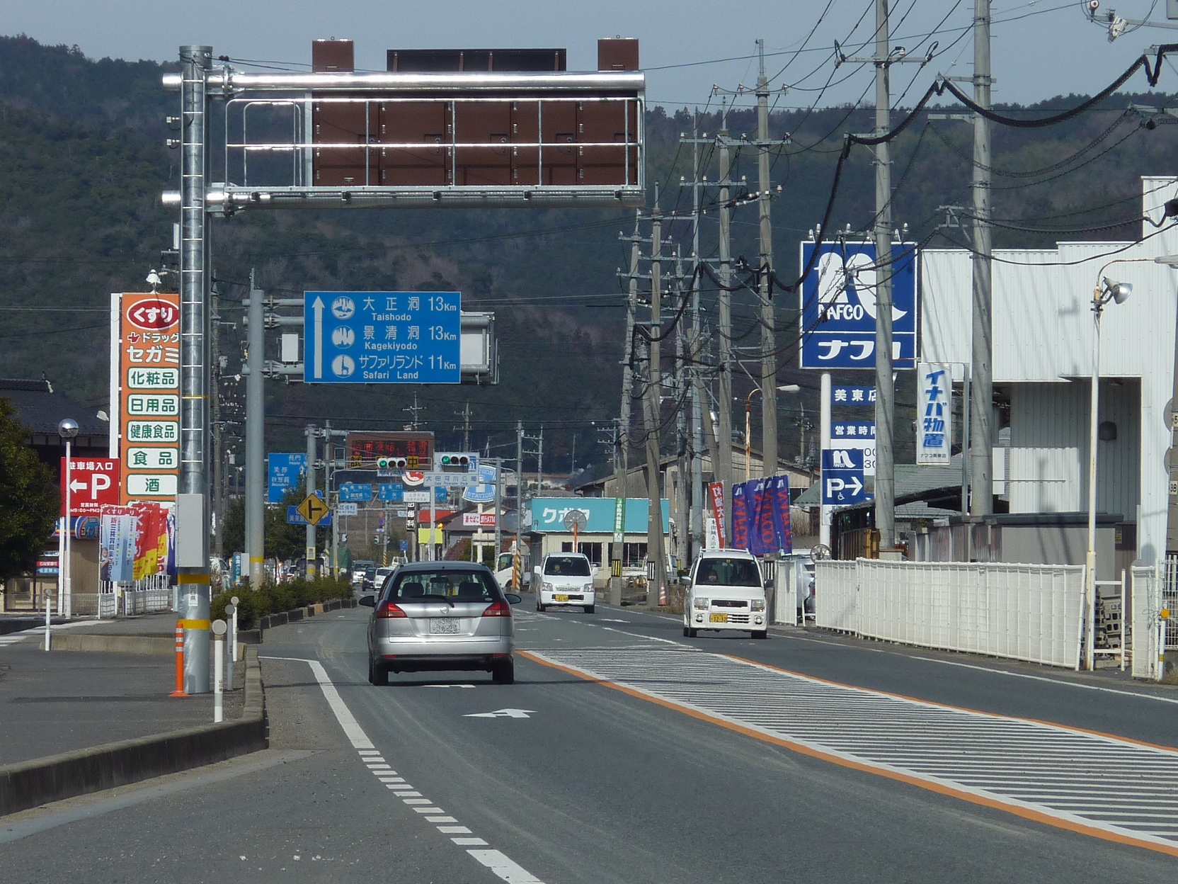 Yamaguchi Prefectural Road No.30 Onoda-Mito Line (Oda, Mine City, Yamaguchi Japan)